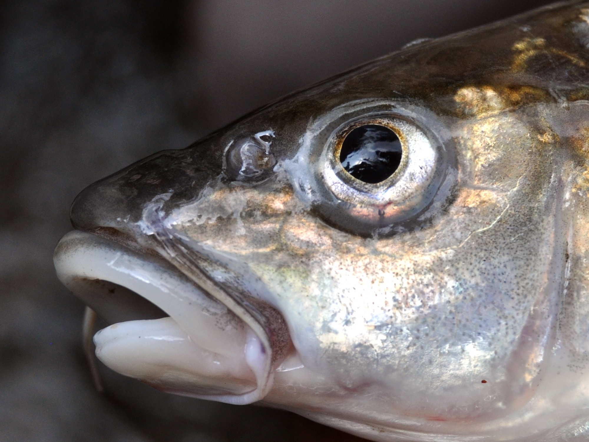 Tor douronensis, 245 mm SL (standard length); head close up. From Jambi, Sumatra, Indonesia. Note the thick upper and lower lips.